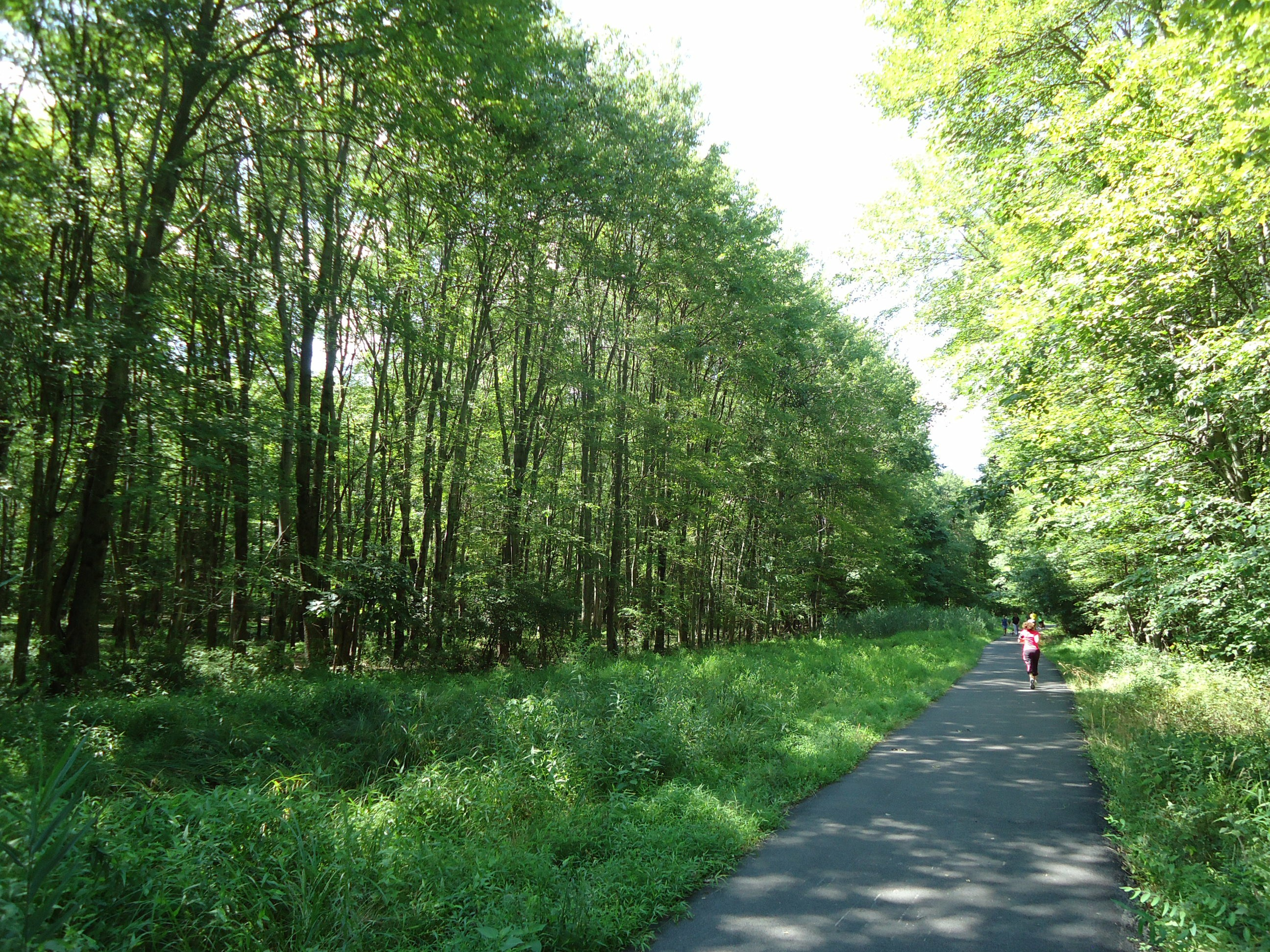 Bike and jogging trail. The Loantaka Brook Reservation in Morris County, New Jersey, has 570 acres of nature trails for biking, jogging, horseback riding, picnics, athletic fields.